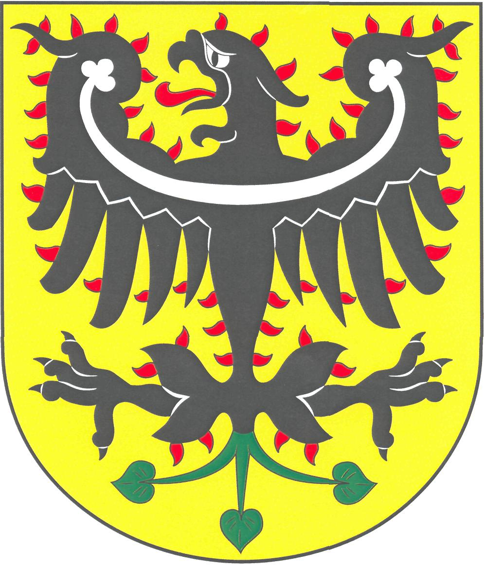 Coat of amrs of Zlonín , District Prague-East, Czech Republic